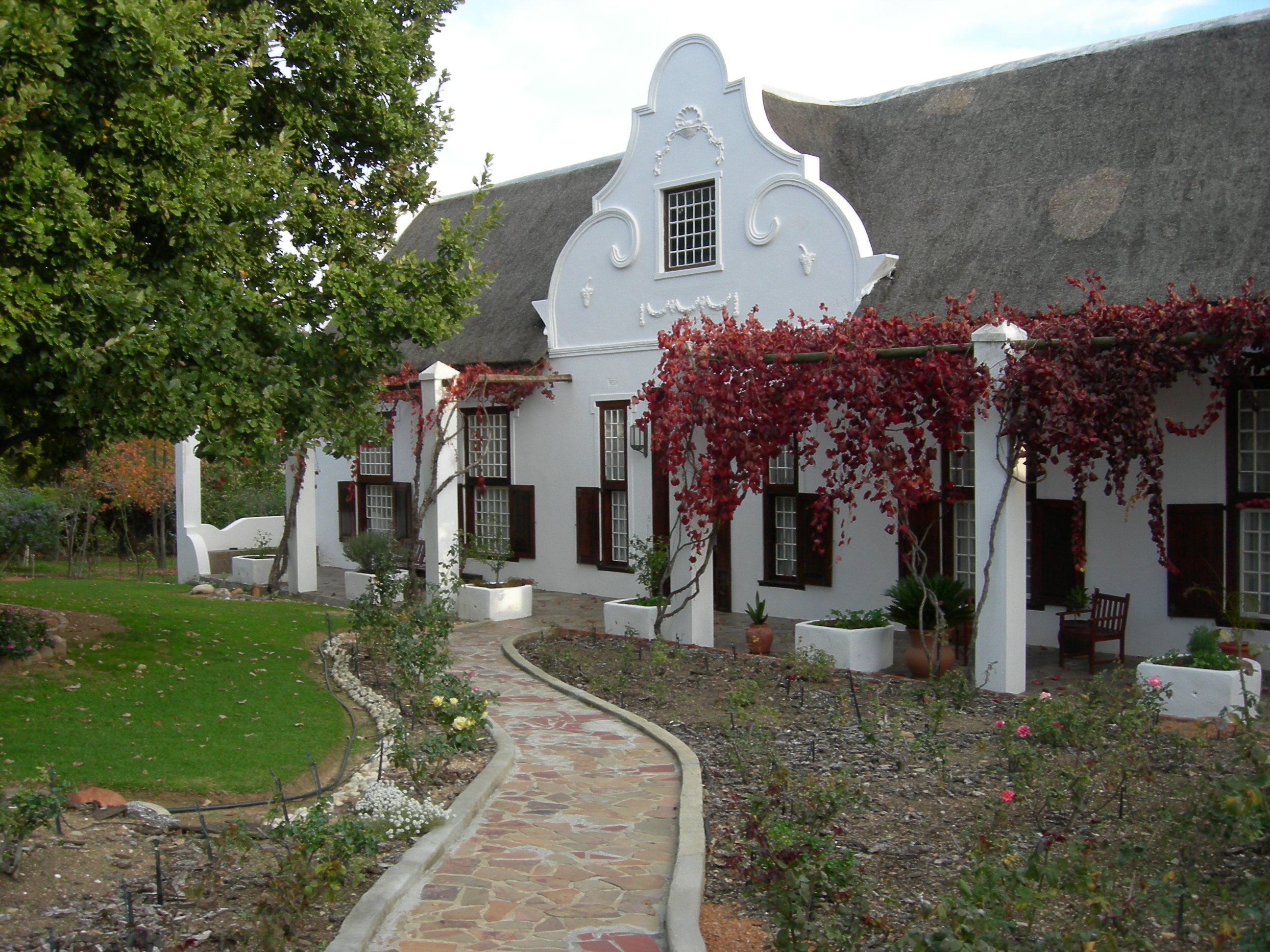 Wittedrift Manor House, a Cape Dutch house in Tulbagh, South Africa.